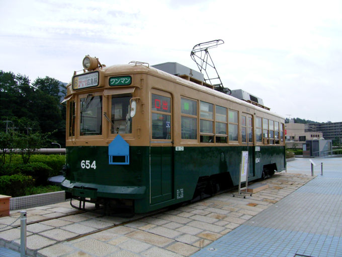 from ja.wikipedia